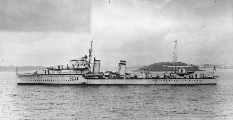 Photograph of British G class destroyer HMS Griffin. She was transferred to the Royal Canadian Navy as HMCS Ottawa (H31) in 1943.